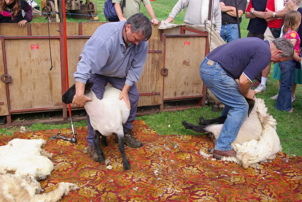 Sheep shearing. One done and one in progress. Monmouth Show.